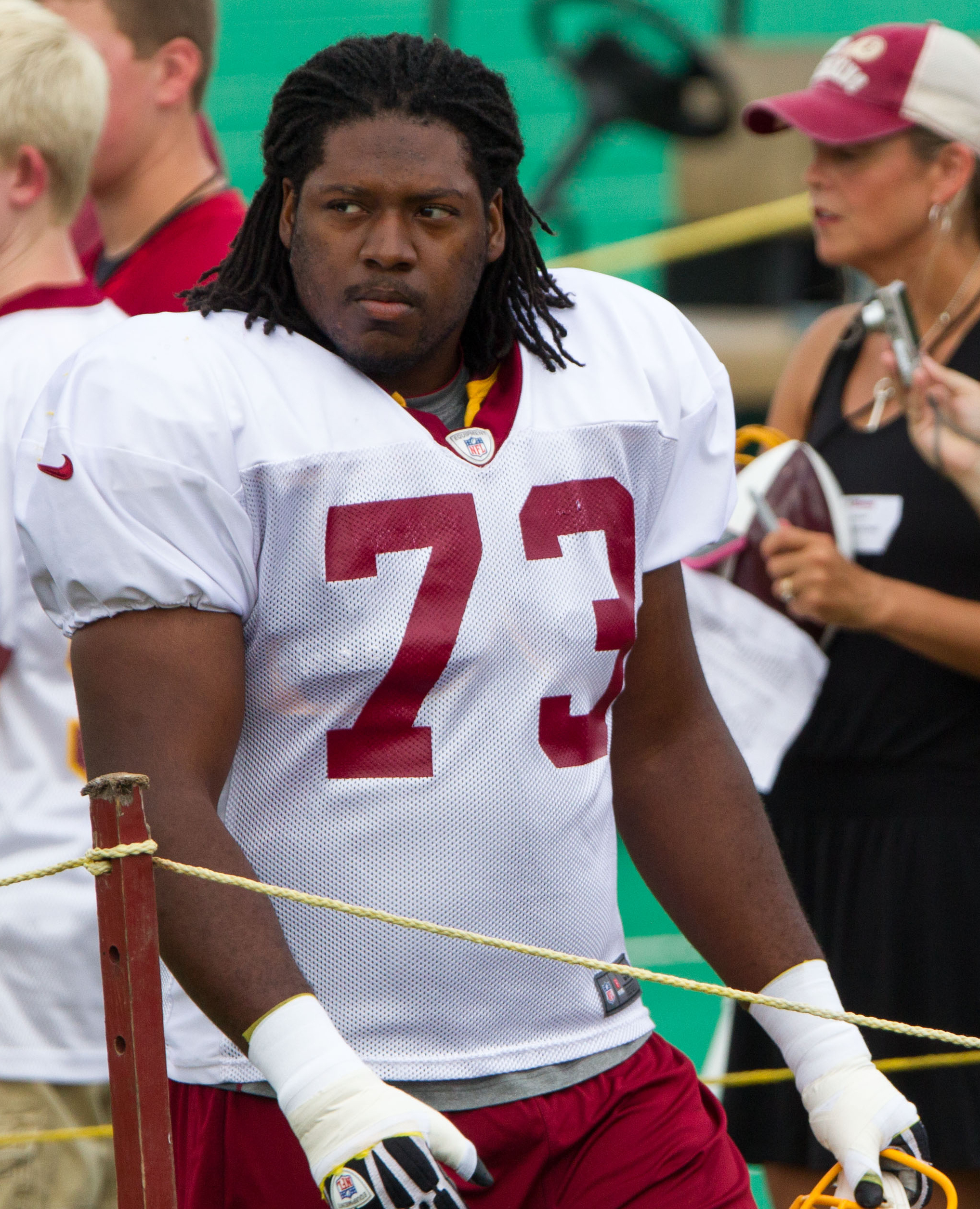 Washington Redskins Training Camp July 31, 2012